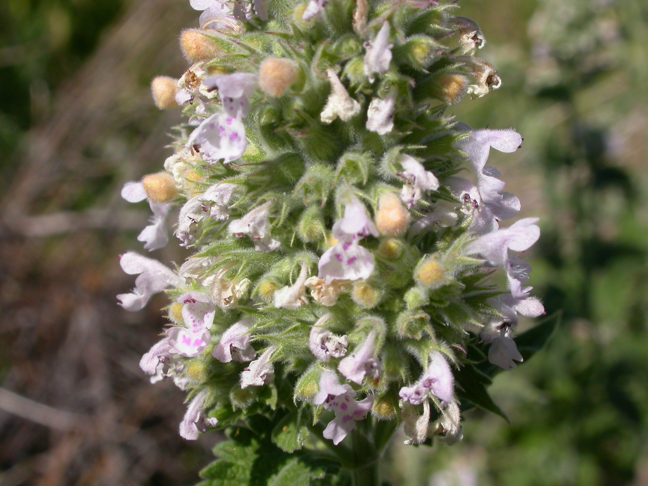 The calyx has 15 distinct ribs, is hairy, and bear five symmetric calyx lobes.